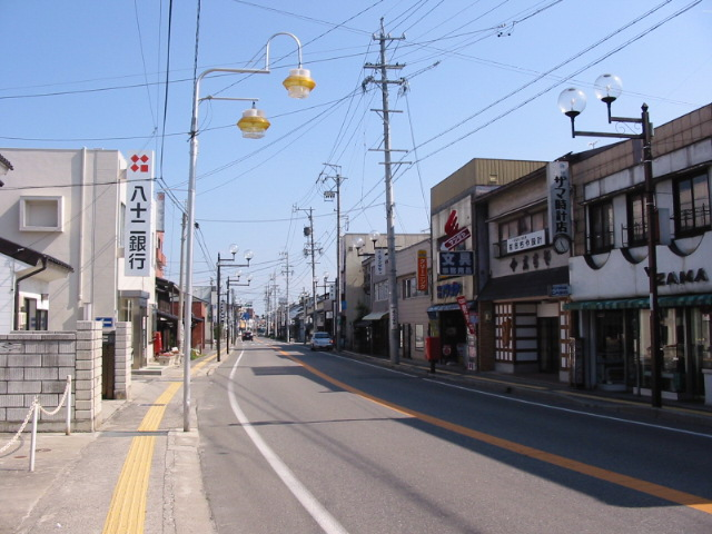 The Nagano Prefectural Road Route 51 in Ikeda Town